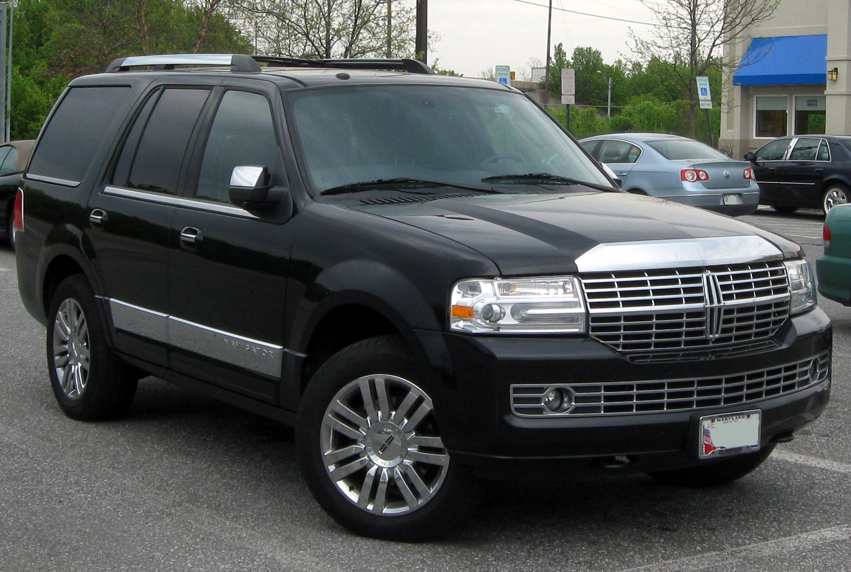 2007-2012 Lincoln Navigator photographed in Clinton, Maryland, USA.